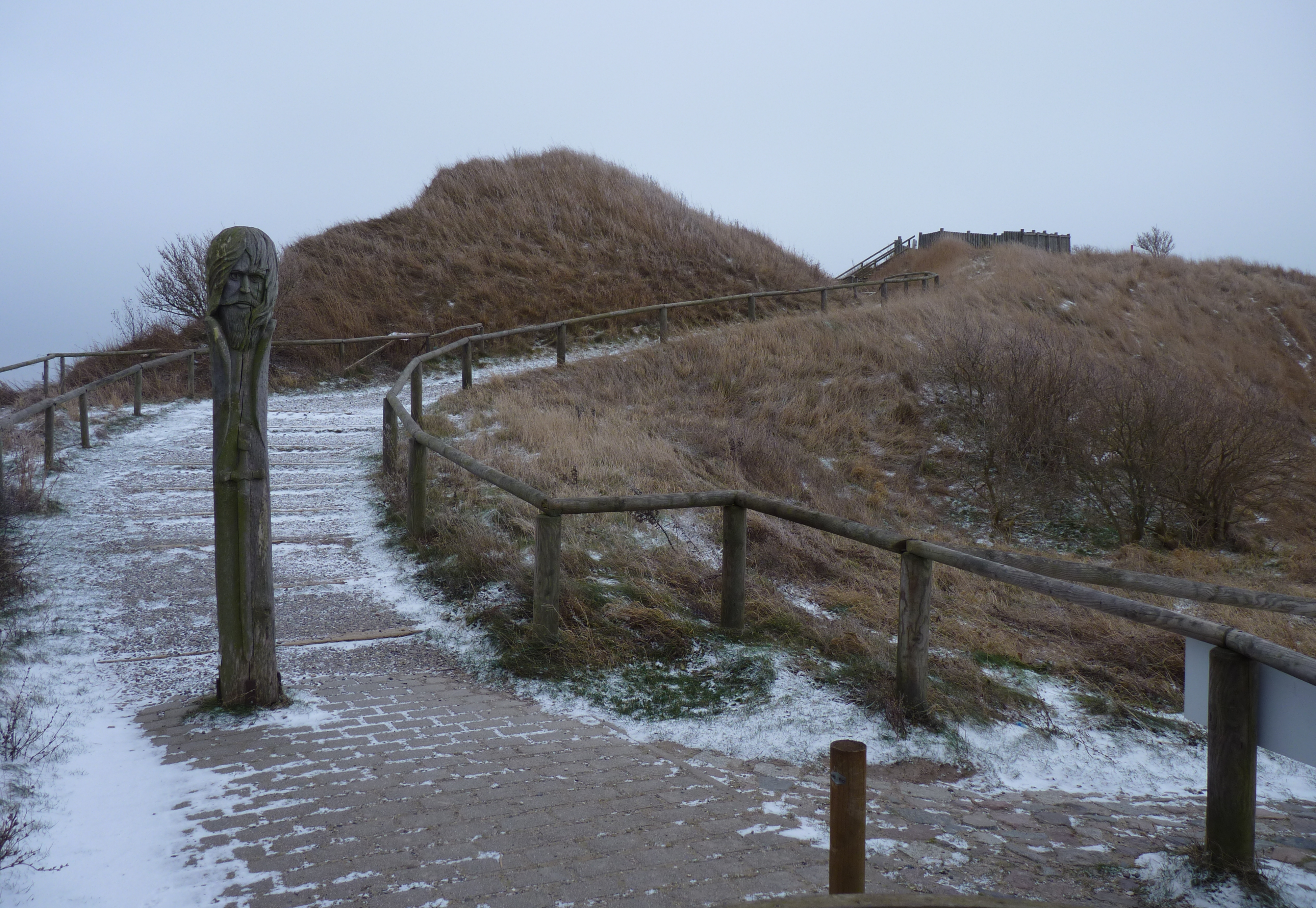 The entrance at the old fortress of Arcona, situated at the northern coast of the German island Rügen. It is no longer allowed to enter the fortress area, due to the danger of collapse.